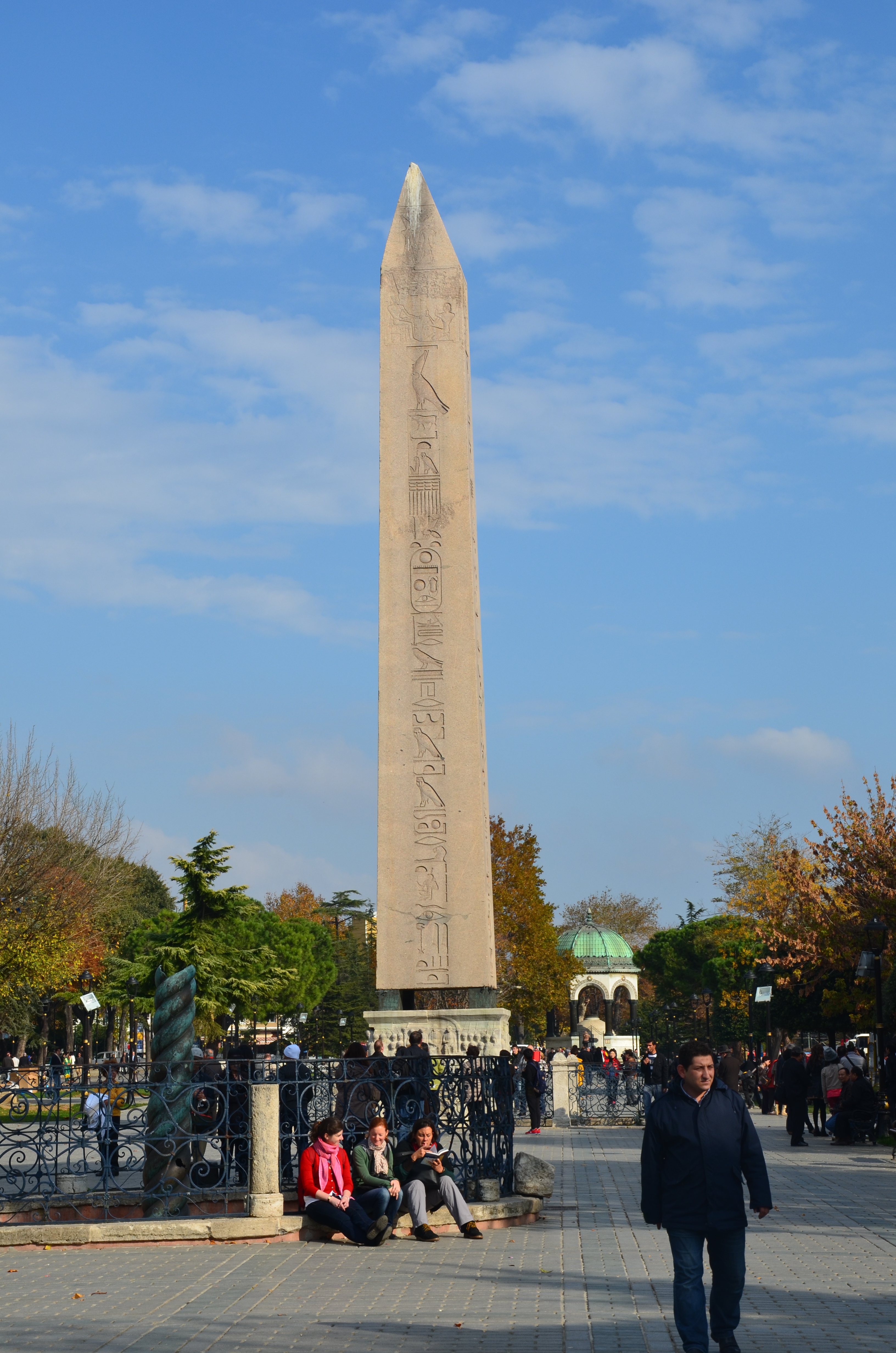 Obelisk of Tuthmosis III, in Square of Horses, Istanbul, Turkey